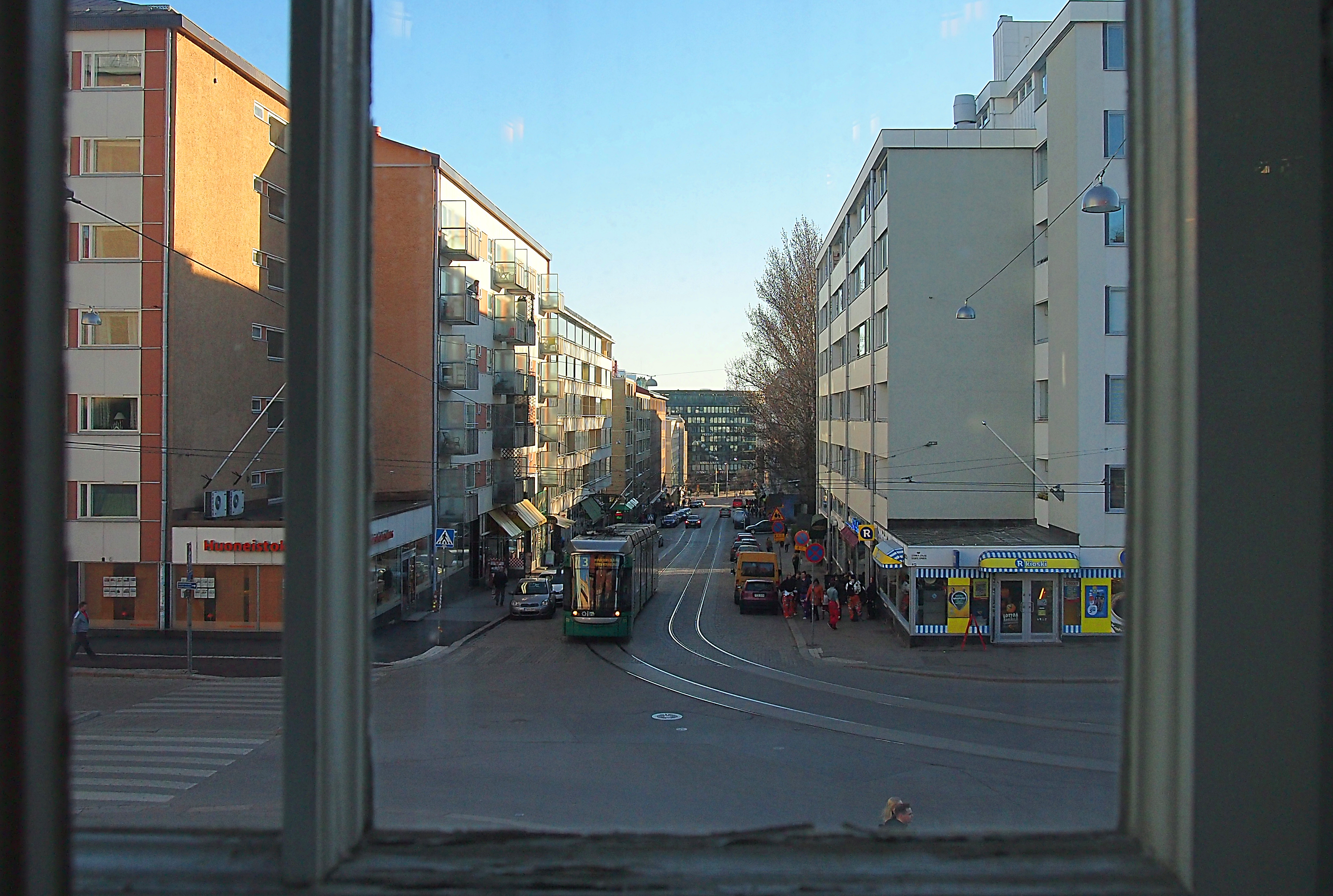 The street Porthaninkatu in Helsinki, Finland, as seen from the Library of Kallio. Spring 2014. Direction south.